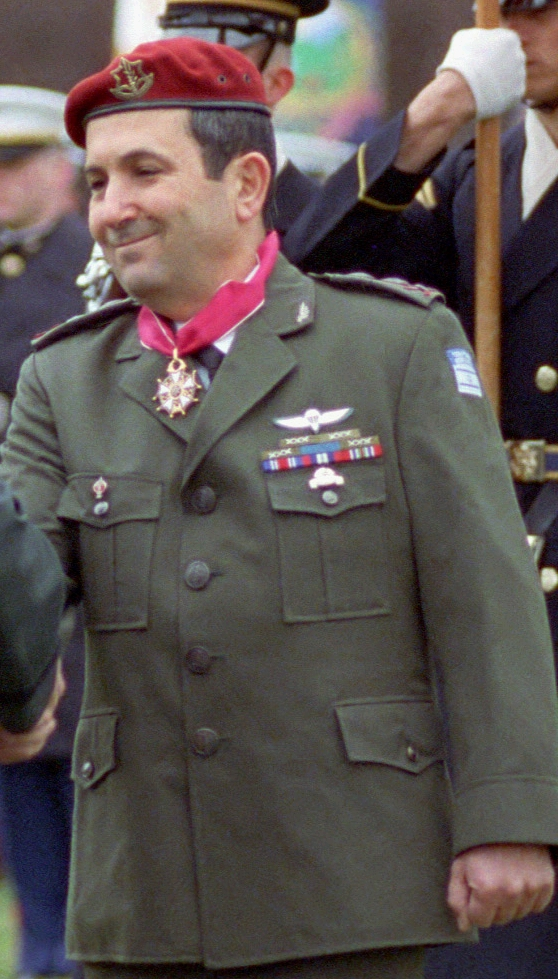 General Staff, Israeli Defense Forces, Lt. Gen. Ehud Barak during an Armed Forces Full Honor Arrival Ceremony at the Pentagon (detail).